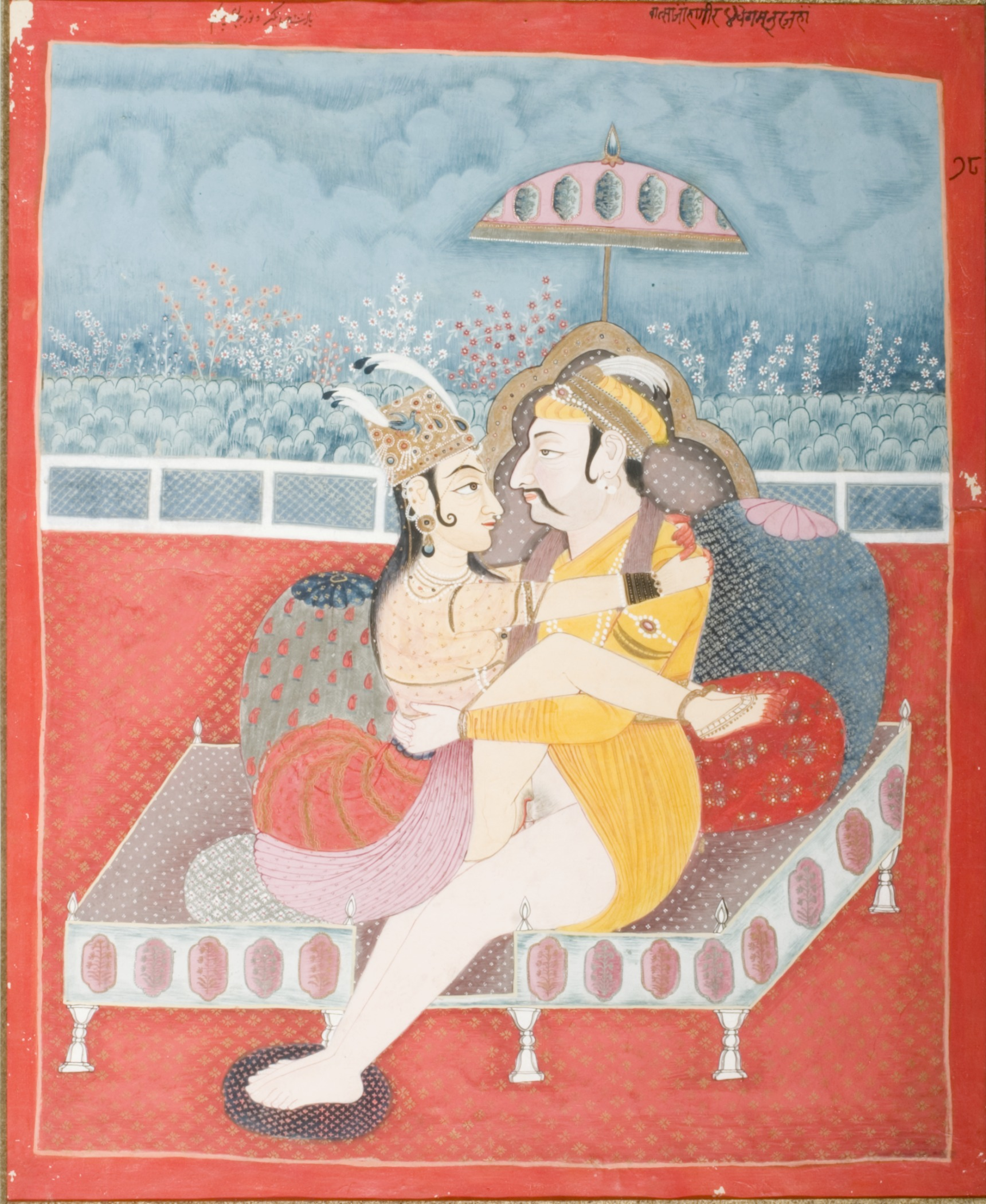 Nepal, circa 1830 Drawings; watercolors Opaque watercolor, gold, and silver on paper Framed: 26 3/4 x 22 15/16 in. (67.95 x 58.26 cm) Gift of the James and Paula Coburn Foundation (M.2005.154.9) South and Southeast Asian Art